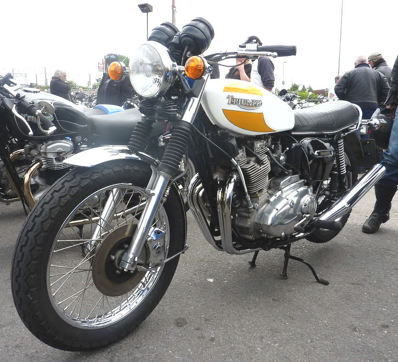 Last incarnation of the original Triumph triple. Built by Norton-Villiers-Triumph at the former BSA factory at Small Heath and not at the Triumph factory at Meriden, this had electric start, left-foot gearchange and five gears as standard. Also came in colour scheme of maroon with white flashes.